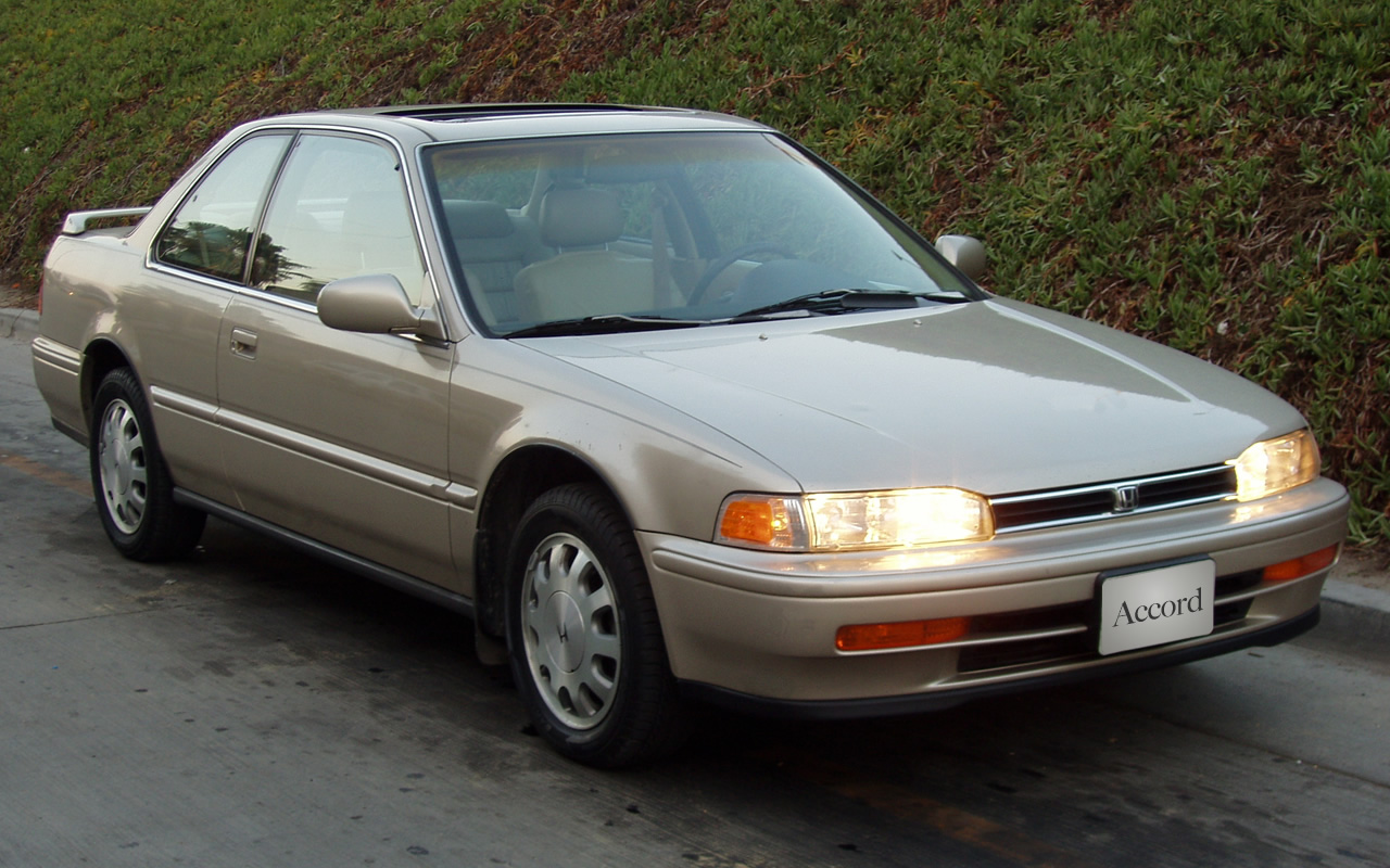 1993 Honda Accord SE coupe.